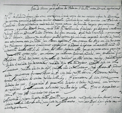 Ban of Spinoza by the Portugese Jewish synagogue Talmud Tora, Amsterdam, 27 July 1656. Signatures not shown.